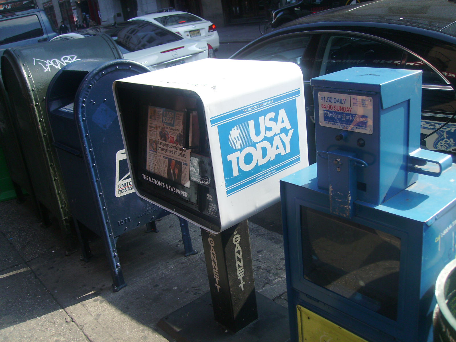 This photo is of Wikis Take Manhattan goal code S10, Newsstand.